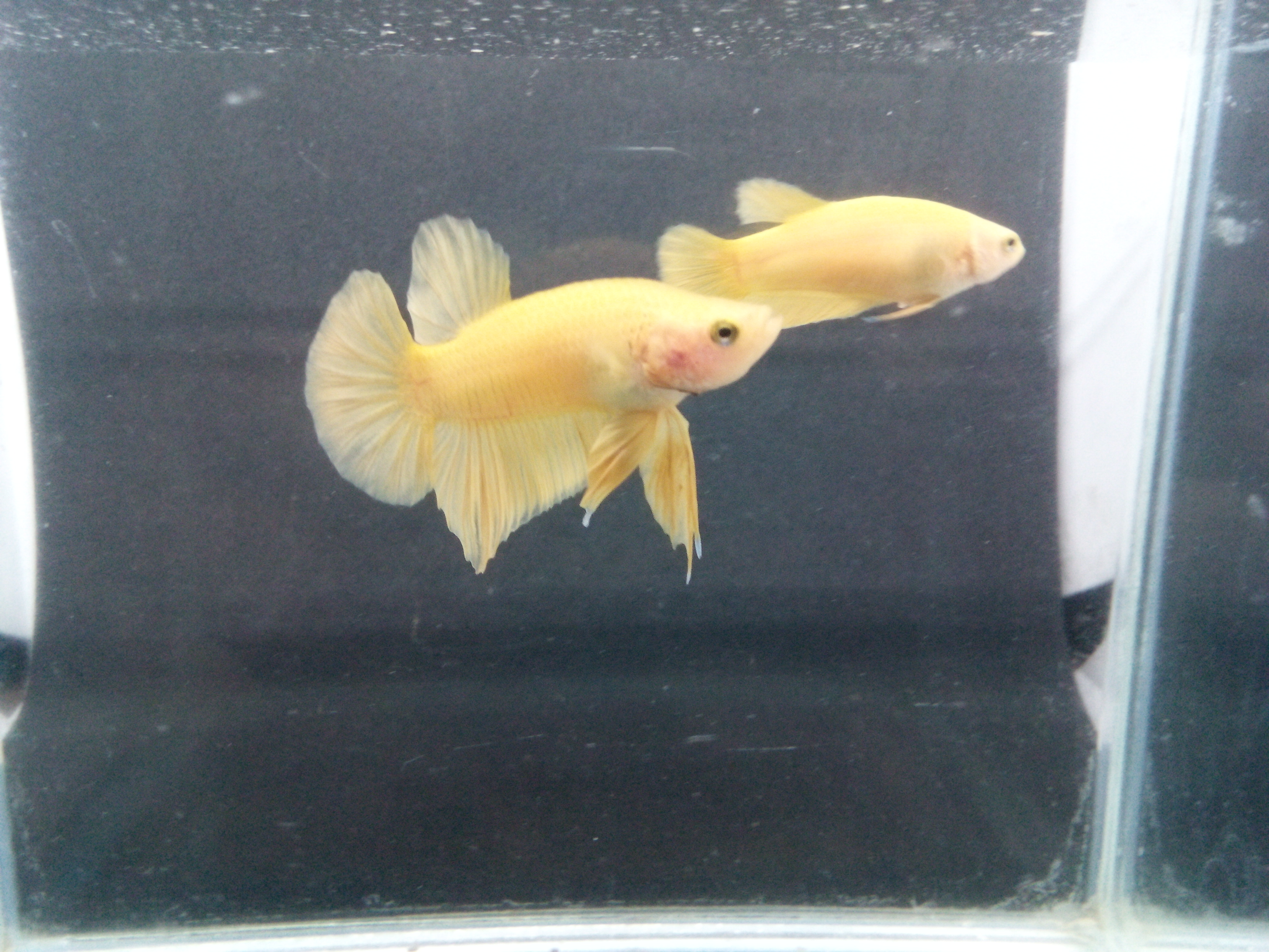 Super Yellow PKHM